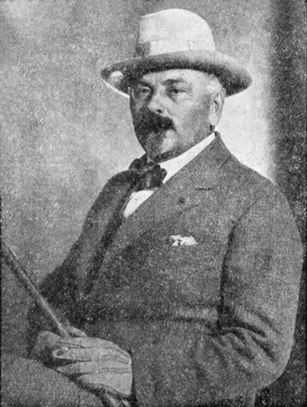 Hanuš Jelínek (1878-1944) was a Czech poet, critic and translator.